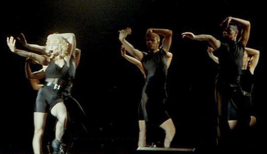 Photo taken during one of the concerts in 1990